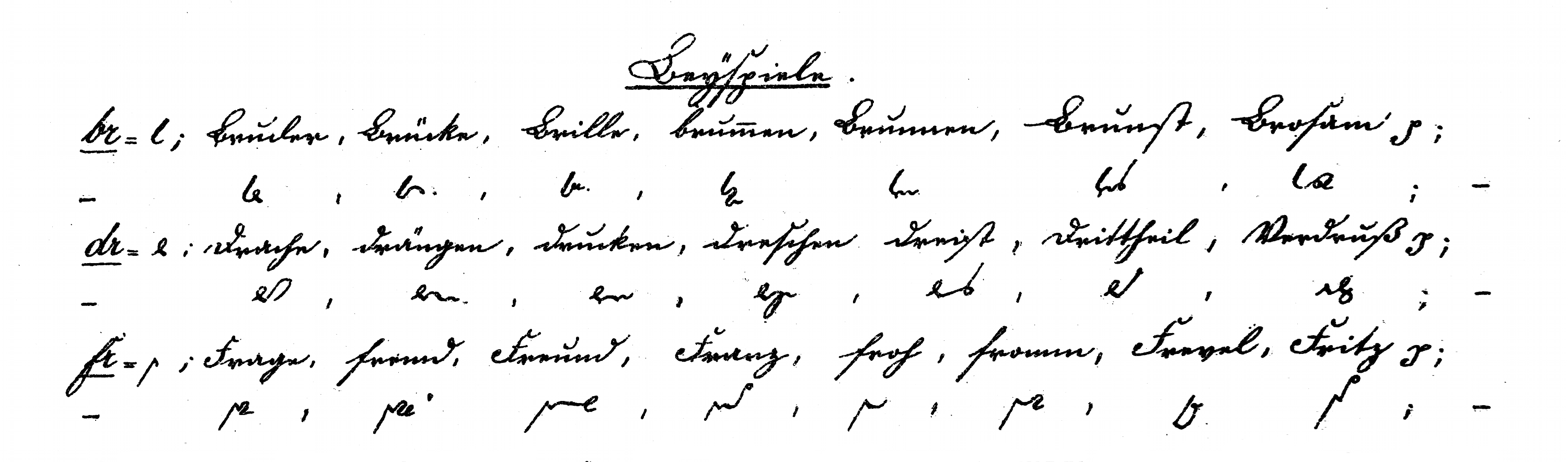 Extract of a page in Franz Xaver Gabelsberger's German shorthand book "Anleitung zur deutschen Redezeichenkunst". Examples of words starting with br-, dr- and fr-.